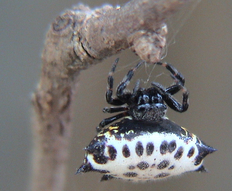 Spiny Backed Orbweaver Spider, Gasteracantha cancriformis from Austin, Texas, USA